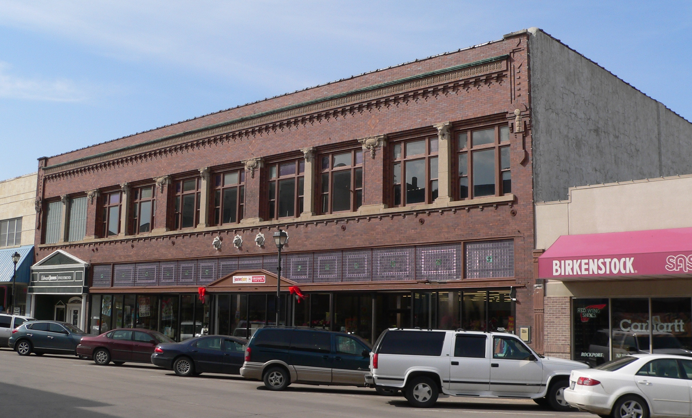 Stein Brothers Building at 620-630 W. 2nd Street in Hastings, Nebraska; seen from the southeast. The Prairie School building was constructed in 1906, and is listed in the National Register of Historic Places.